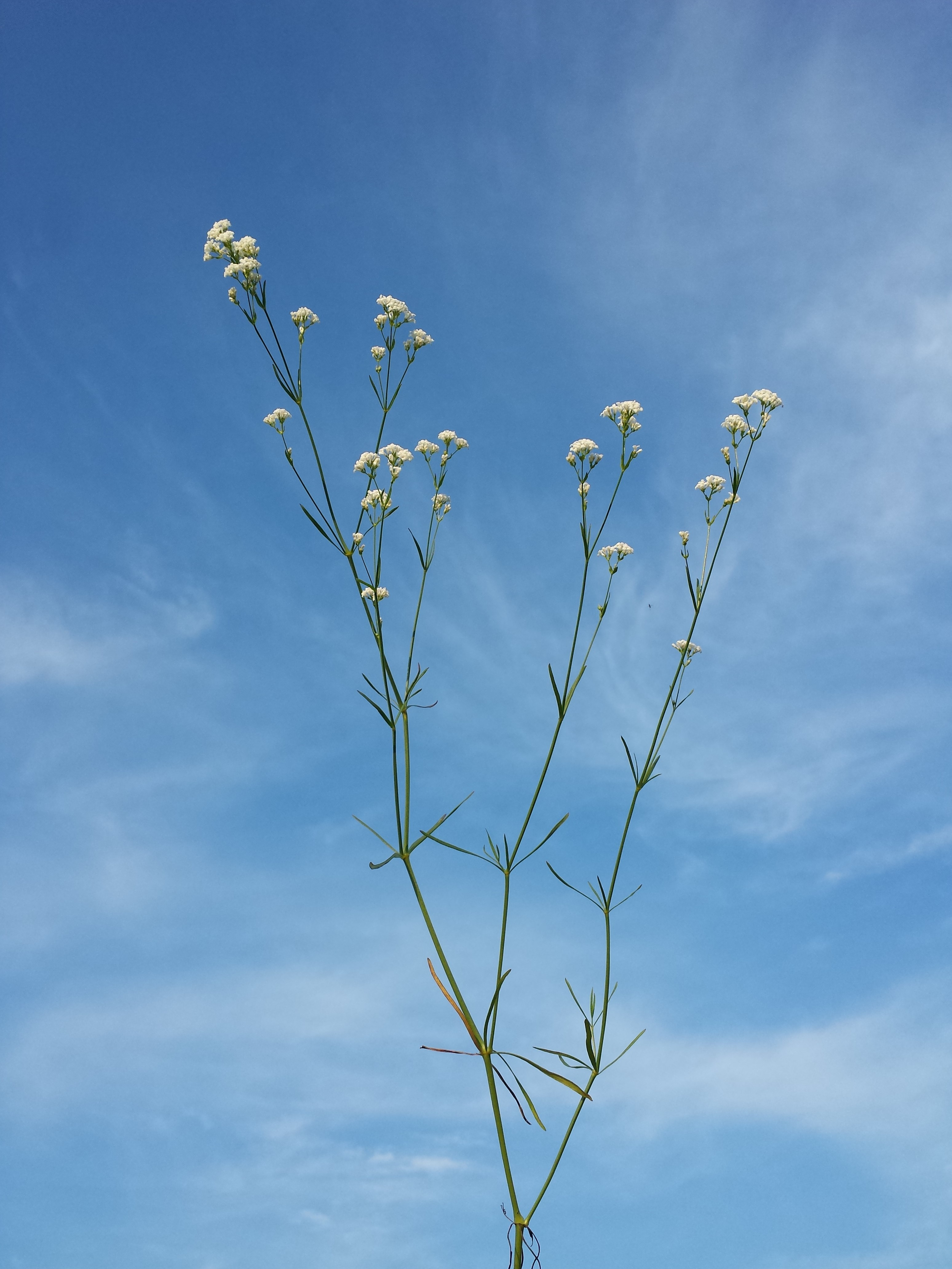 Habitus Taxonym: Asperula tinctoria ss Fischer et al. EfÖLS 2008 ISBN 978-3-85474-187-9 Location: Steinberg near Niederhollabrunn, district Korneuburg, Lower Austria - ca. 375 m a.s.l. Habitat: semi-dry grassland